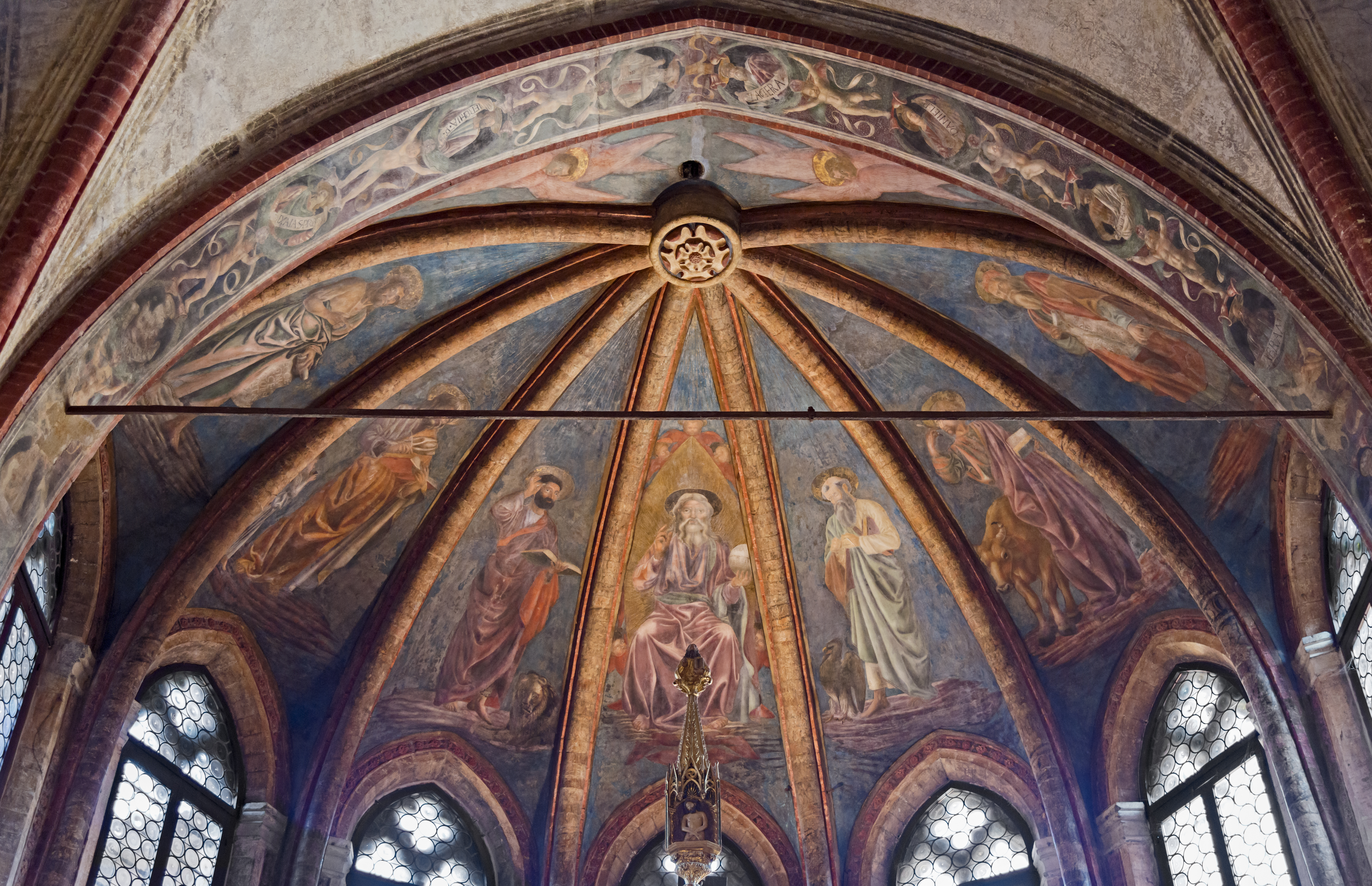 San Zaccaria in Venice - Andrea del Castagno frescoes in the apse vault of San Tarasio Chapel 1442.